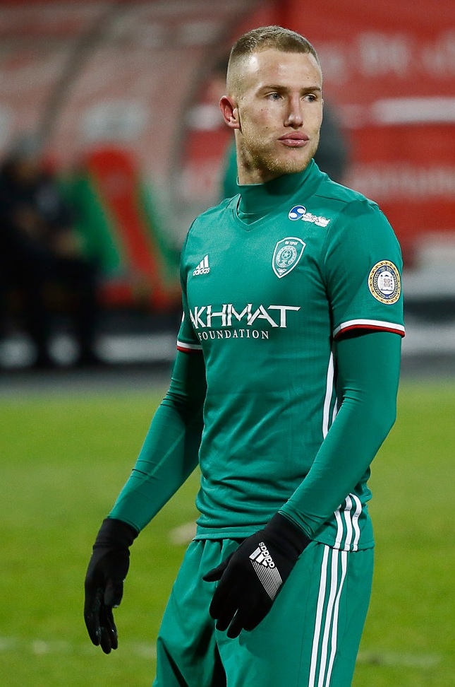 Bekim Balaj with FC Terek Grozny in a game against FC Lokomotiv Moscow.